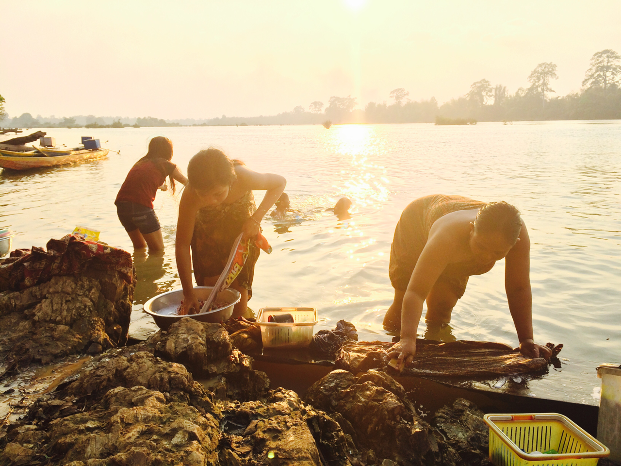 Women in Sre Kor village wash their clothes in Sesan river, Stueng Treng province, Cambodia. The river is their life, but the villagers are under pressure to relocate as the dam is being constructed there. Once the dam construction is complete, during rainy season water would rise up and flood the whole village.